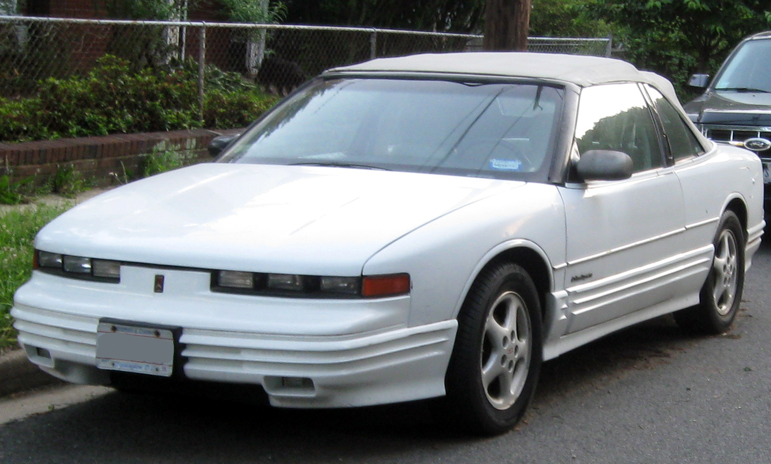 Oldsmobile Cutlass Supreme photographed in Washington, D.C., USA.